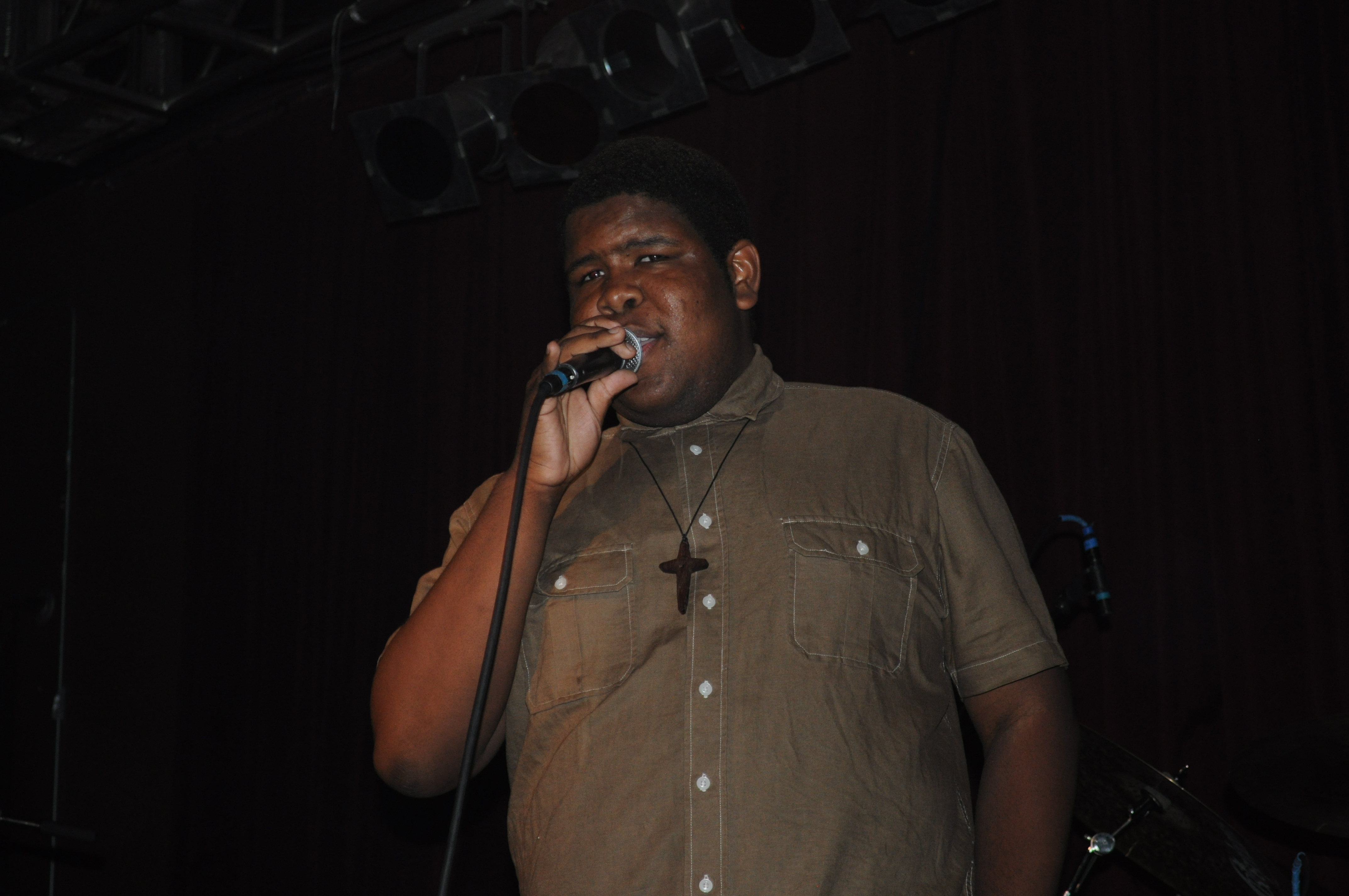 Seattle vocalist extraordinaire Ray Dalton performing at Neumos, Capitol Hill, Seattle, Washington, where he joined the rapper Sol onstage.